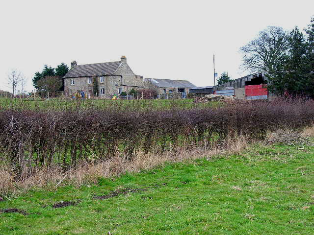 Cragg Farm, Constable Burton